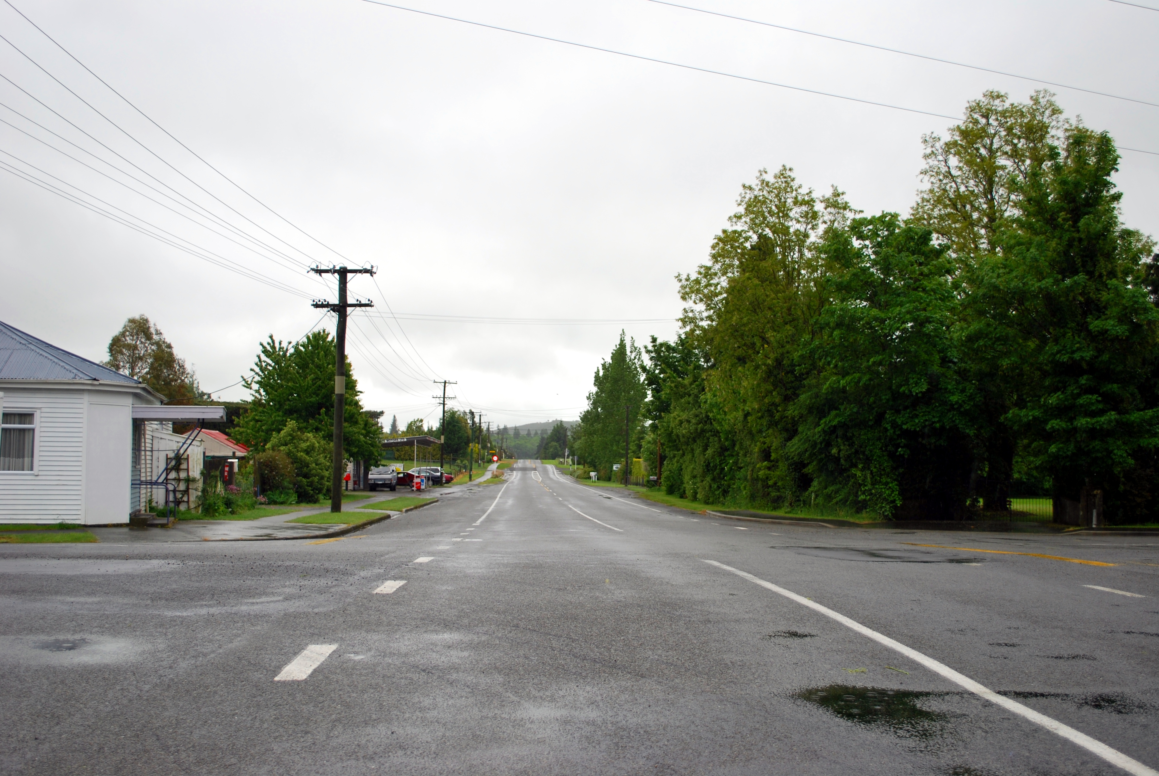 Main street of Coalgate, New Zealand